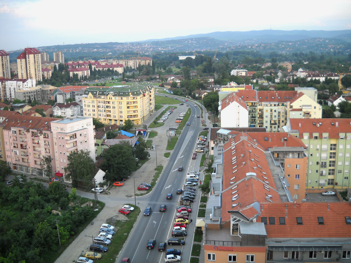 Subotica Boulevard (Boulevard of Europe) in Novi Sad. There are Telep (right) and Adamovićevo Naselje (left) neighborhoods around this boulevard.